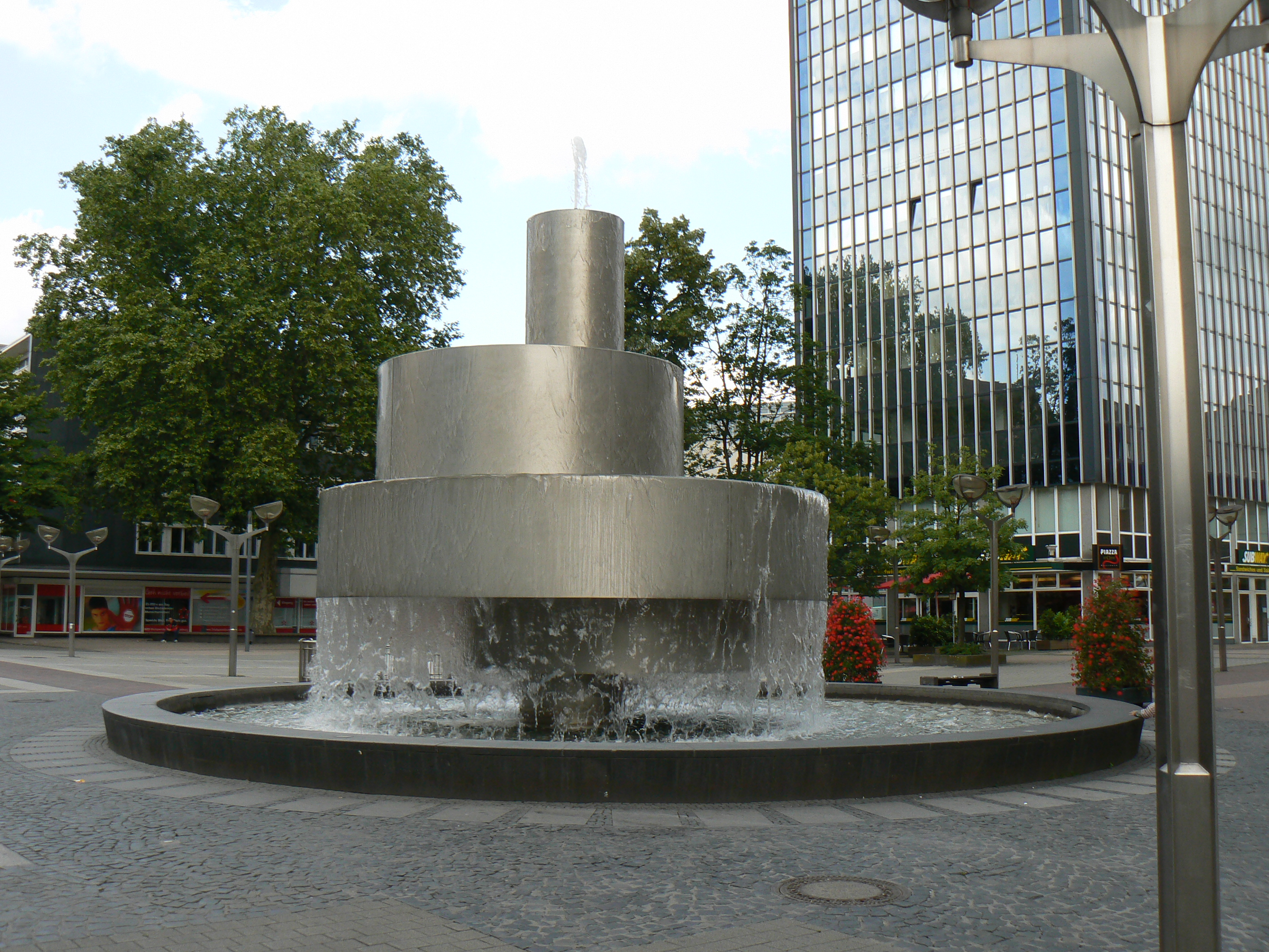 Fountain Utitled (1983) by André Volten in Duisburg/Germany